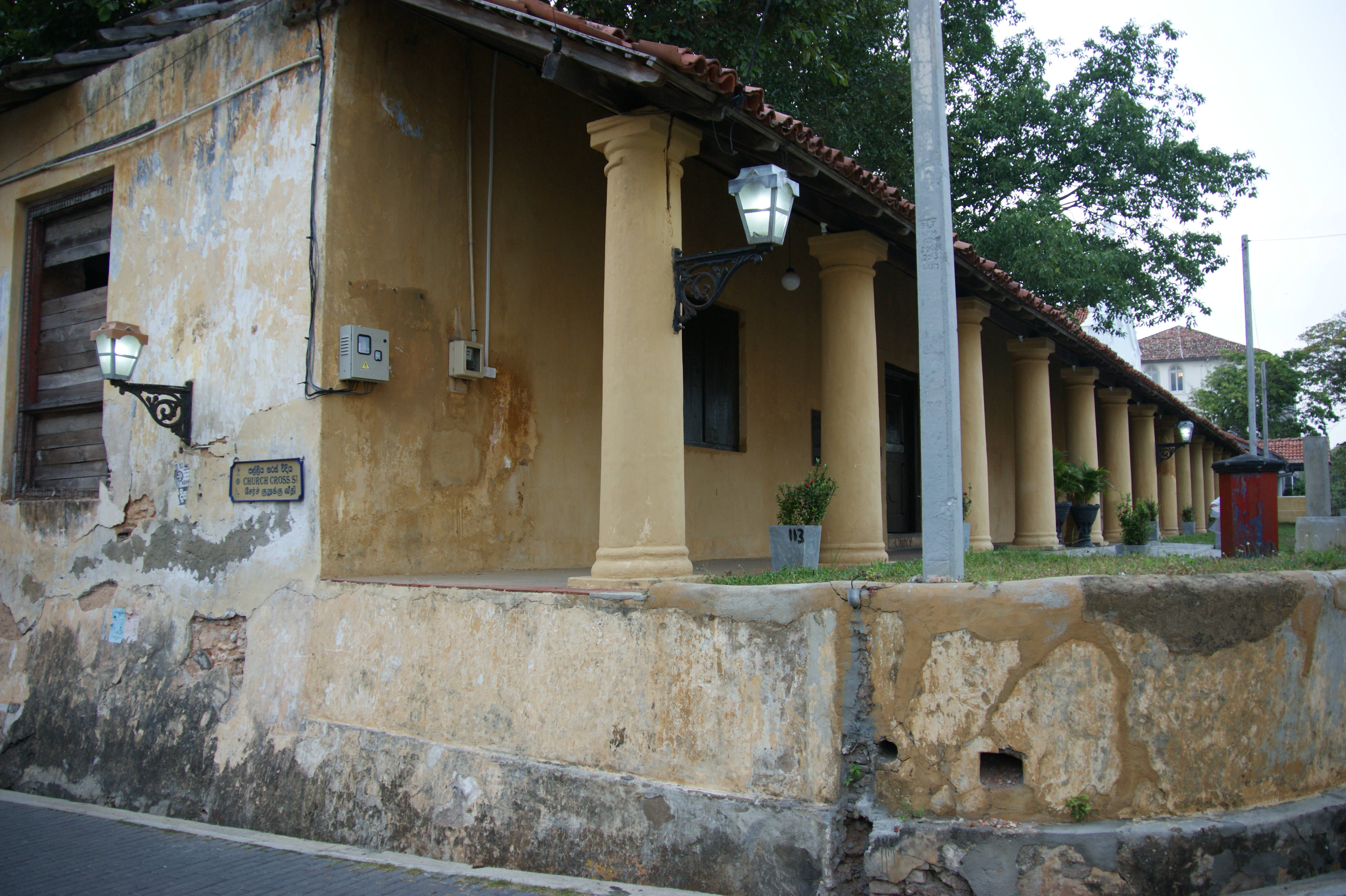 The Post Office in Galle Fort is located in a building which used to be the Dutch Administrator’s and Assistant’s quarters and was subsequently used as the British Commissariat Store